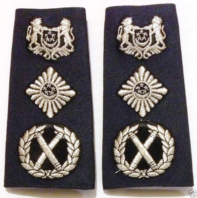 Commissioner Police - SPF epaulettes (everyday dress)